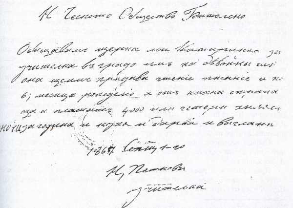 Letter from Nedelya Petkova to the Bitolya Bulgarian Municipality 1867